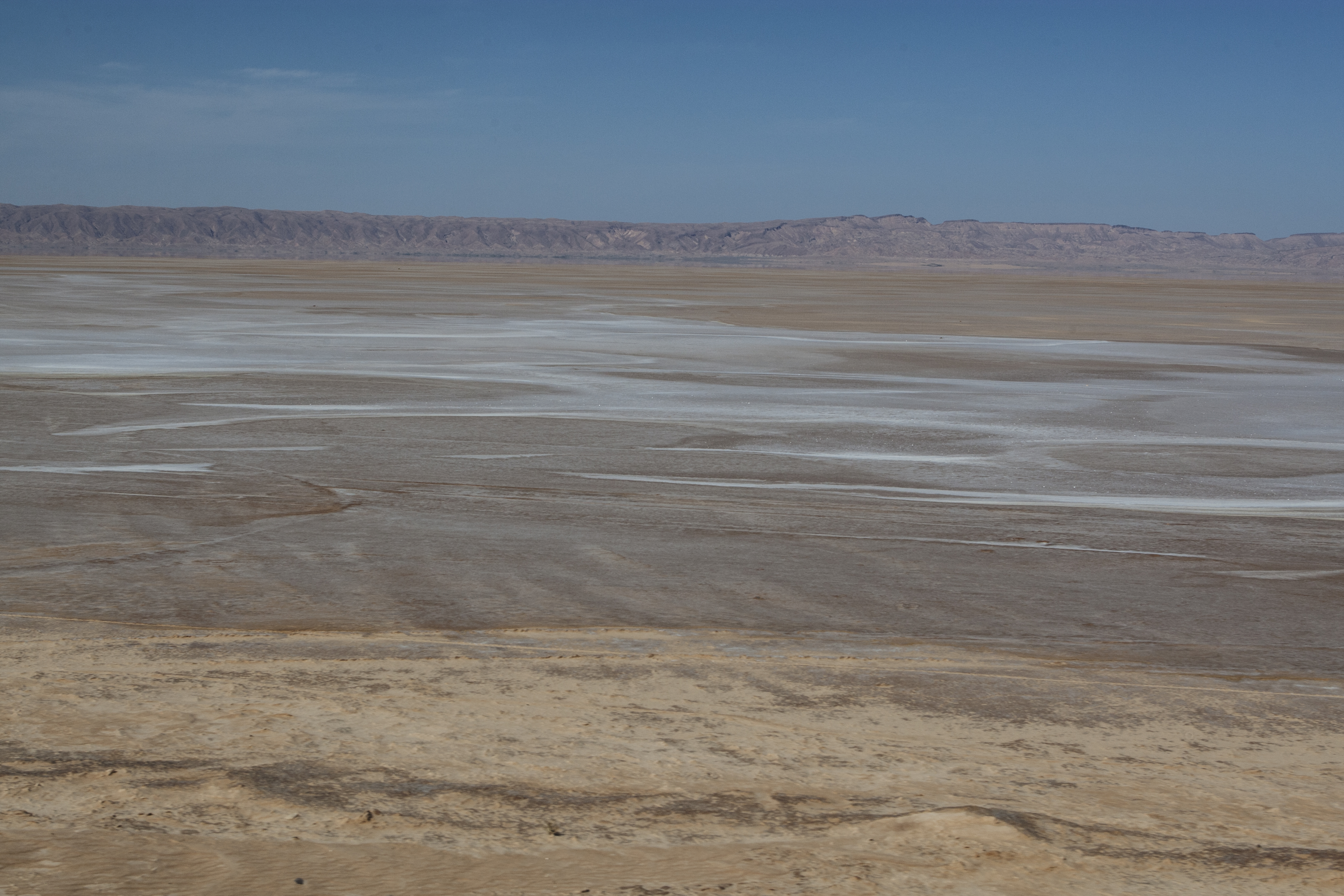 Chott el Djerid